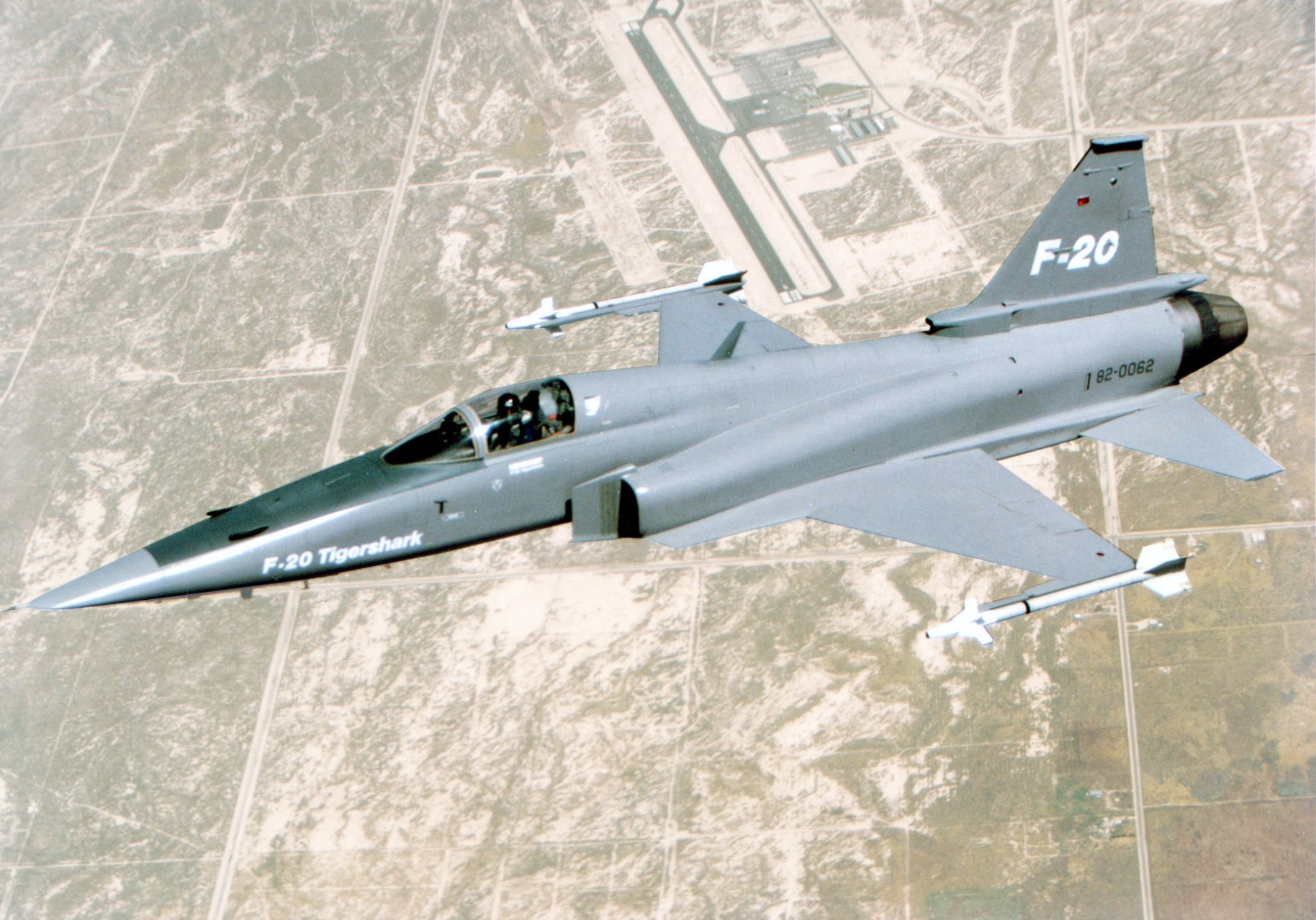 Northrop F-20 in flight. (U.S. Air Force photo)